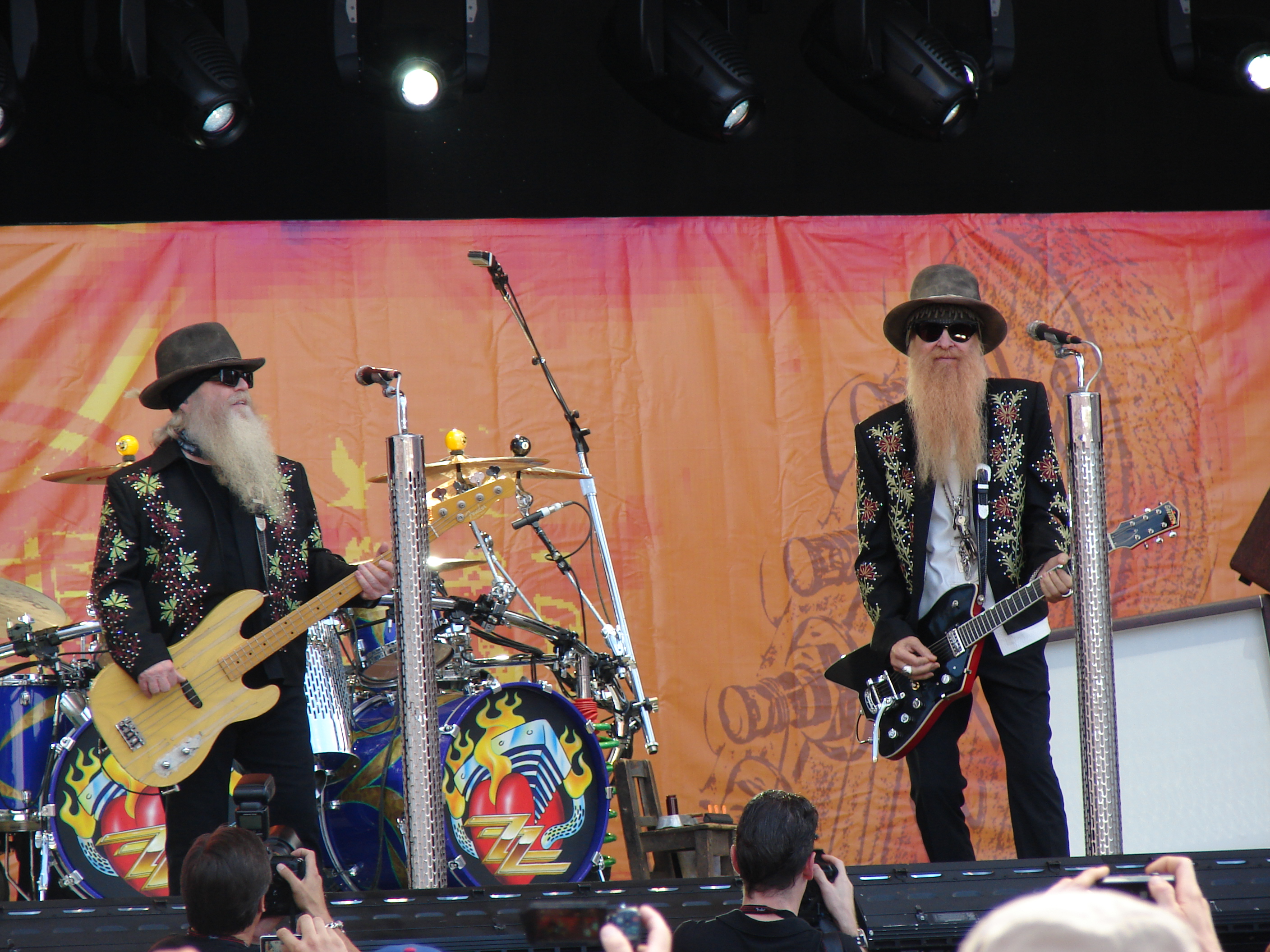 ZZ Top live performance